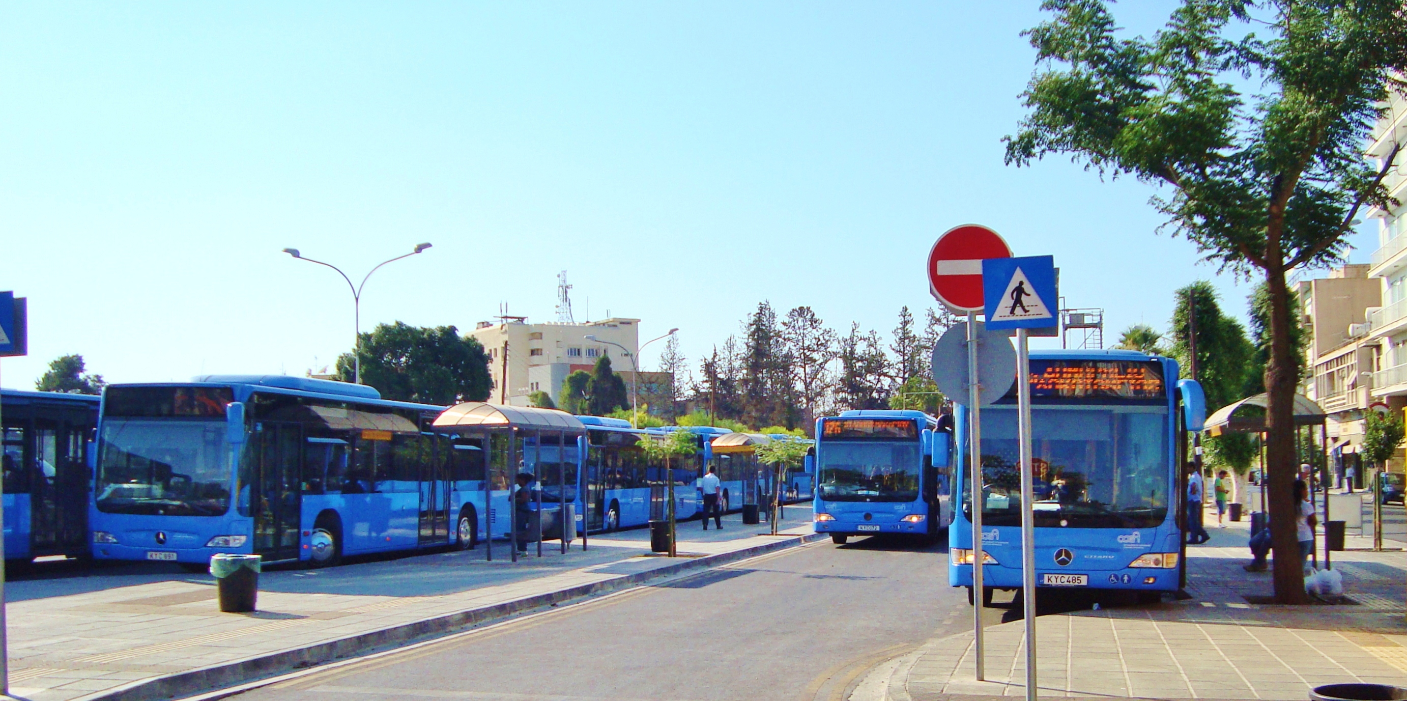 Busses operated by OSEL, Solomos Square bus station in Nicosia, Republic of Cyprus